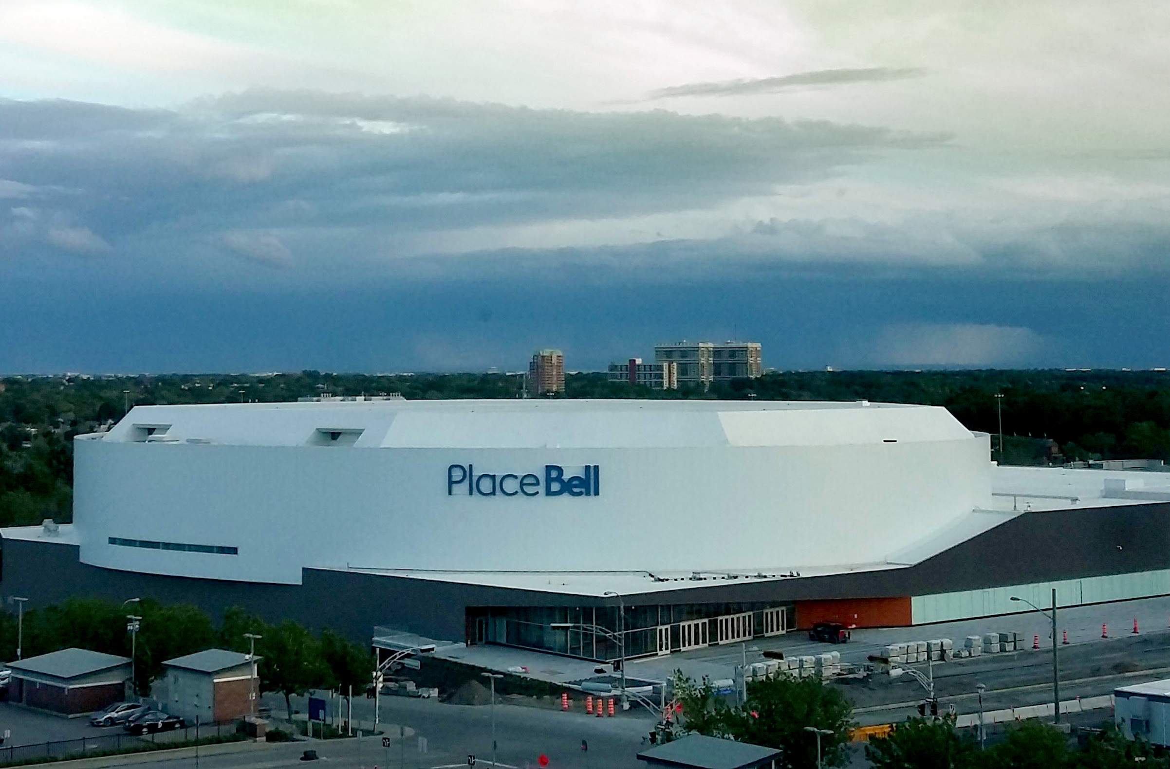 Place Bell presque complétée, image prise du 6e étage de l'Université de Montréal, direction Sud